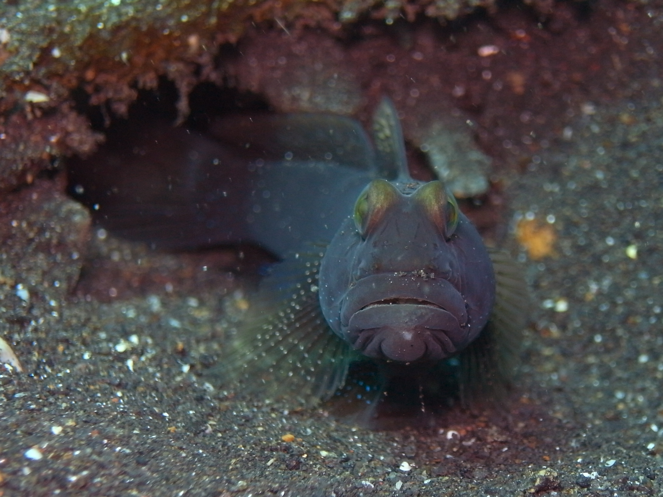 Black shrimp goby (Cryptocentrus fasciatus) emerging from a hole in the rocks.